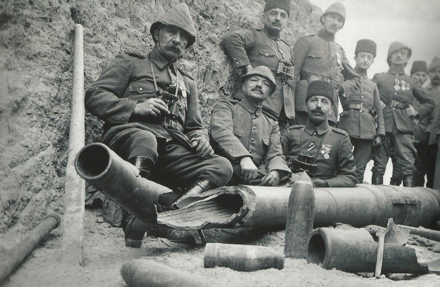 Esat Pacha (Mehmet Esat Bülkat) and Ottoman officers in WW1